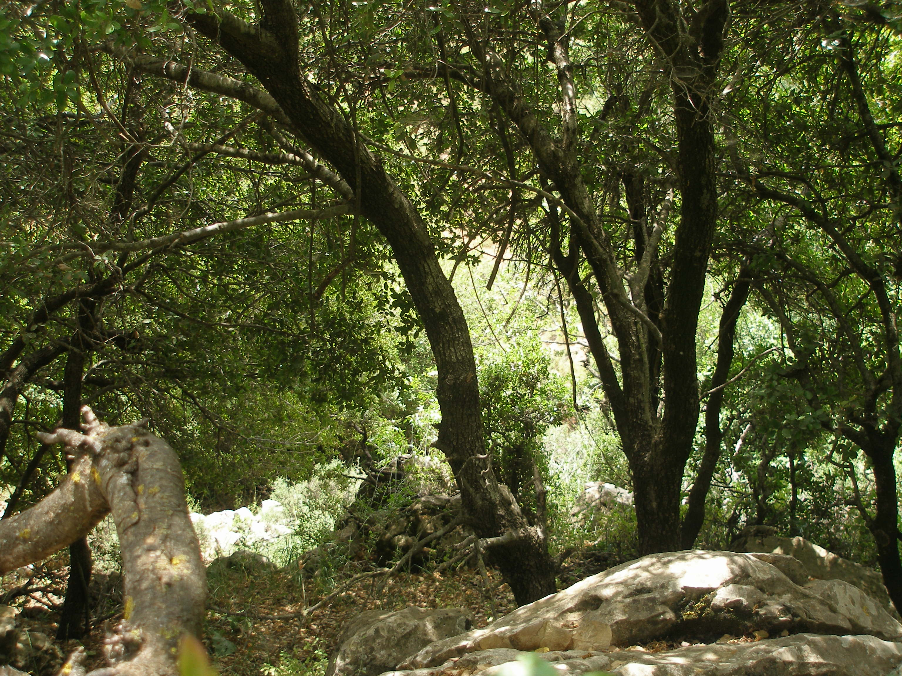 Mediterranean forestm, the Galilee, israel